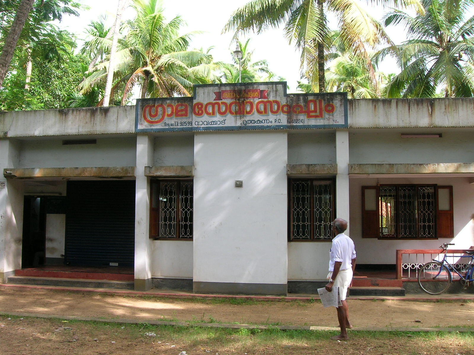 Grama Seva Sangham, vavakkad